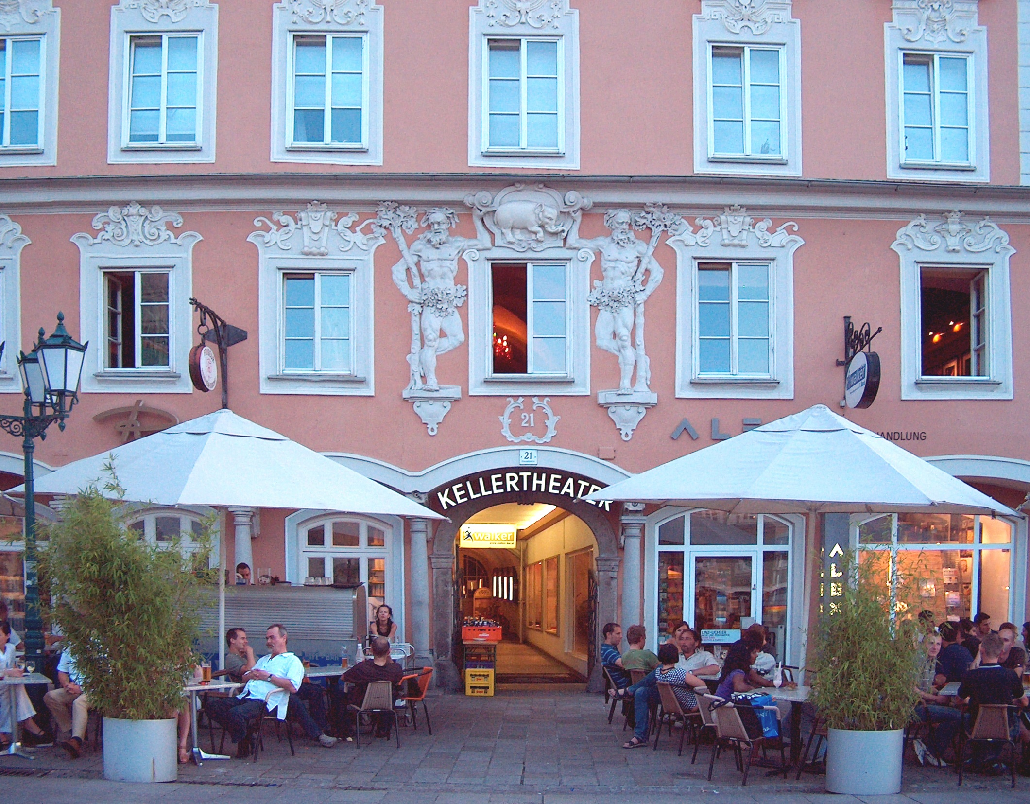 Linz - Hauptplatz - Kellertheater